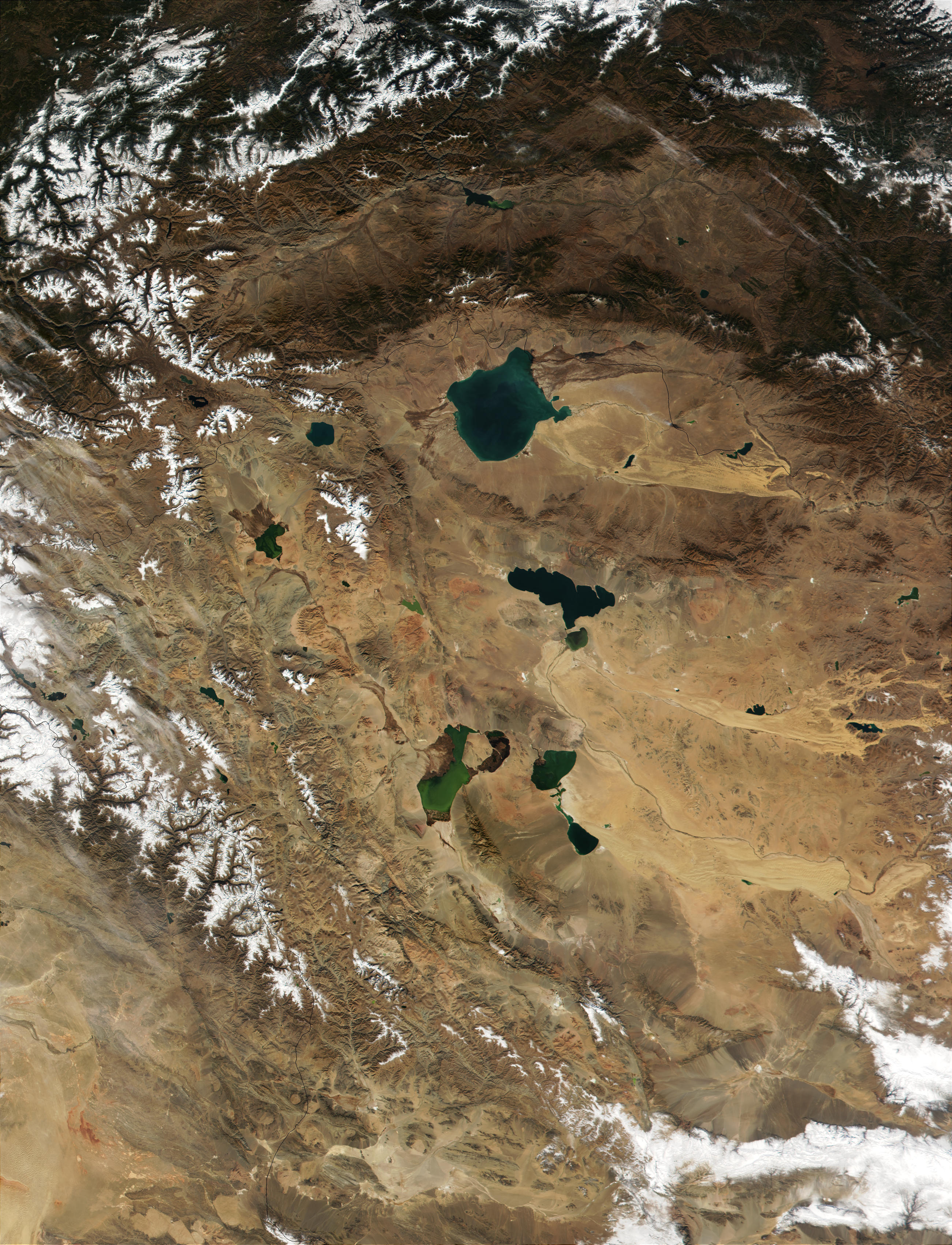 Great Lakes Depression, Mongolia and Russia, Terra/MODIS, 2001-10-15, resolution 250 m